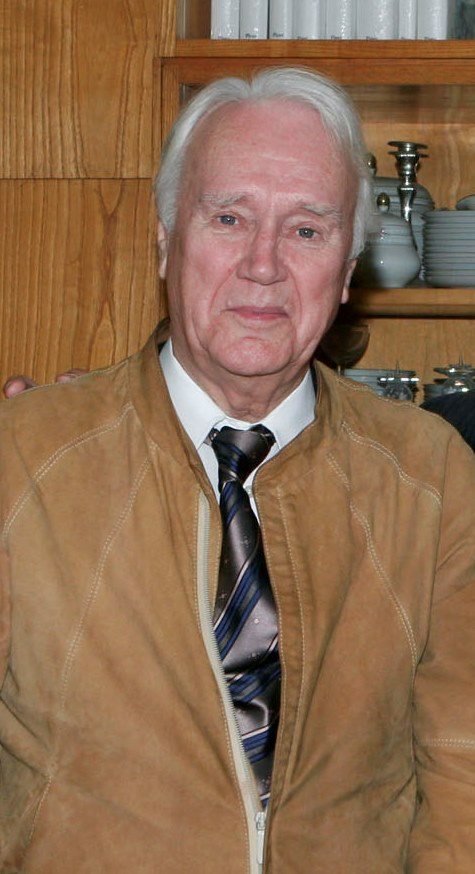 Vilko Ovsenik (1928-)